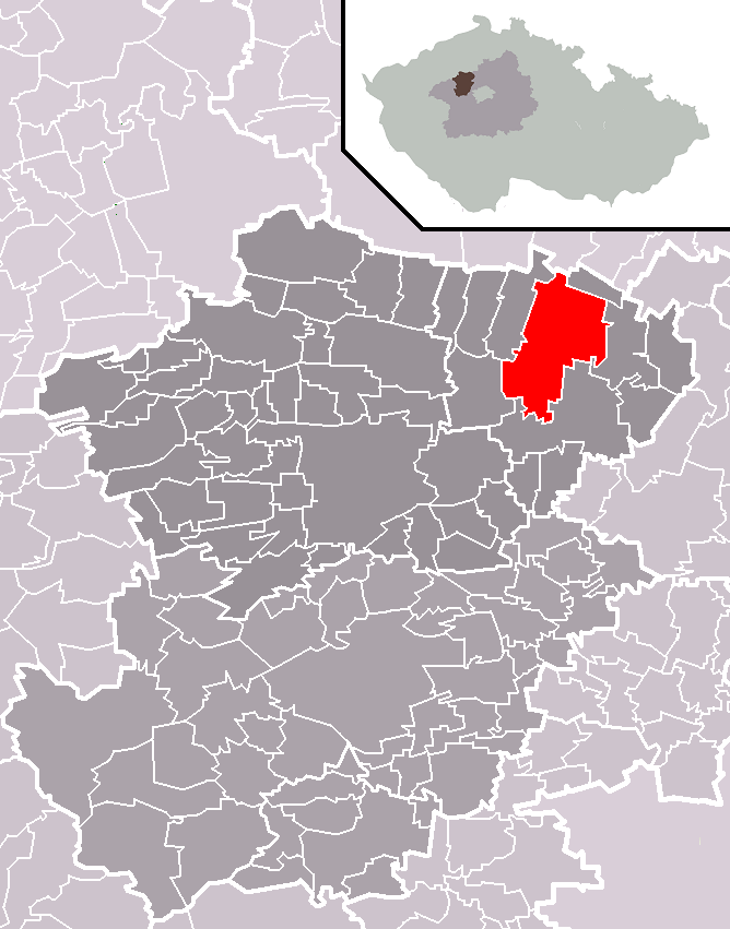 Location of Černuc municipality within Kladno District and administrative area of Slaný as a Municipality with Extended Competence.